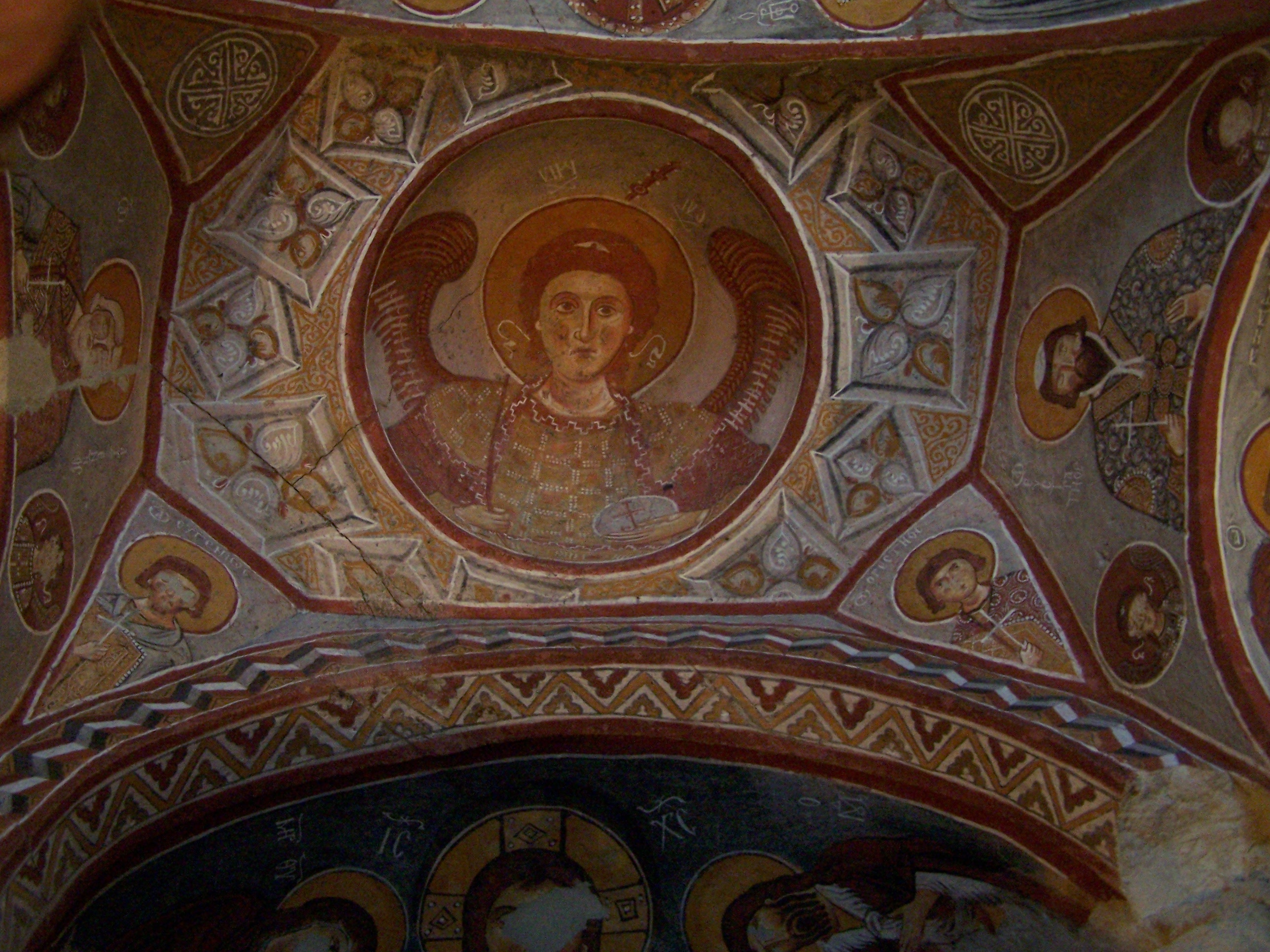 Goreme Apple church fresco